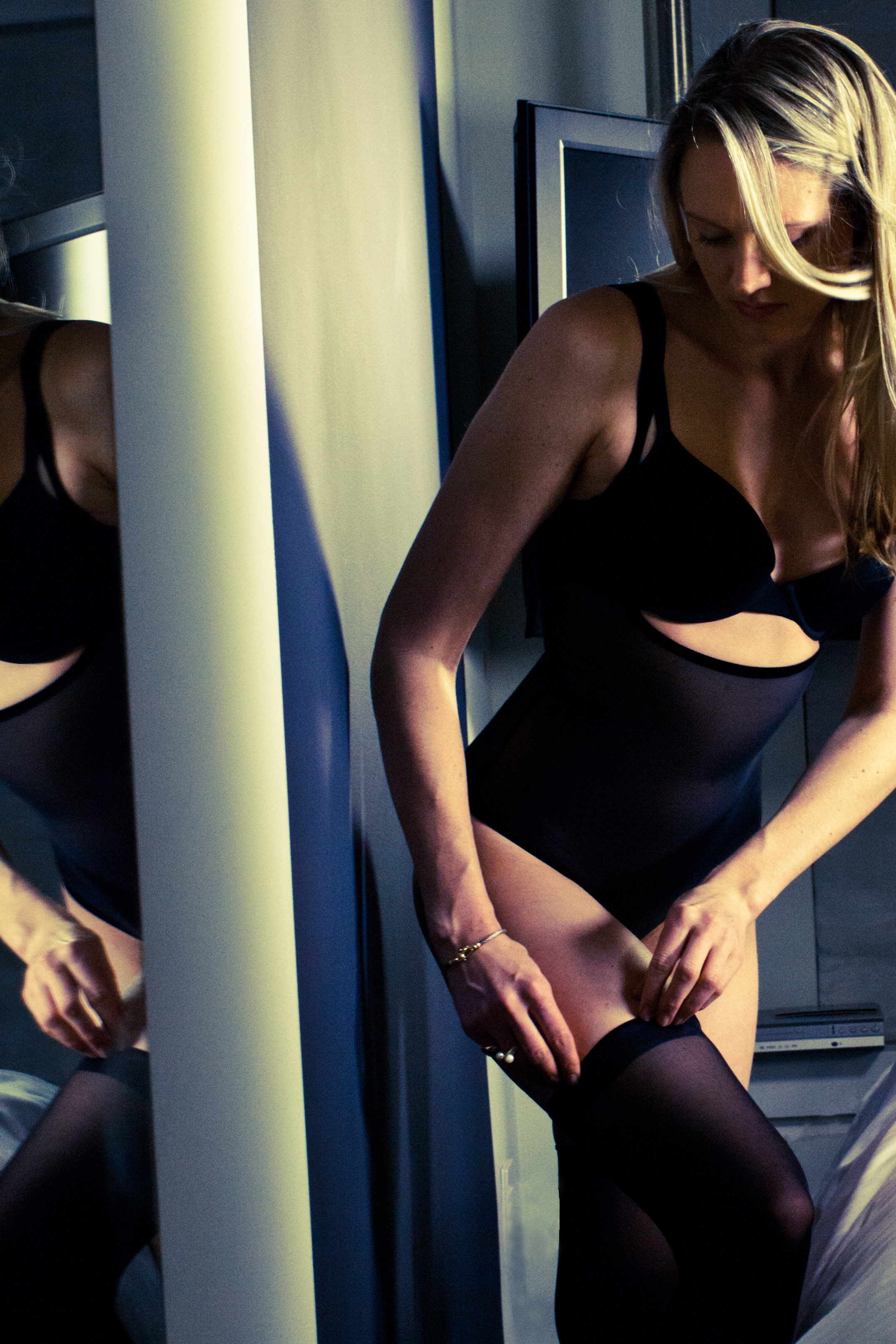 Wolford, Tulle Forming Body, Bodysuit, 2013